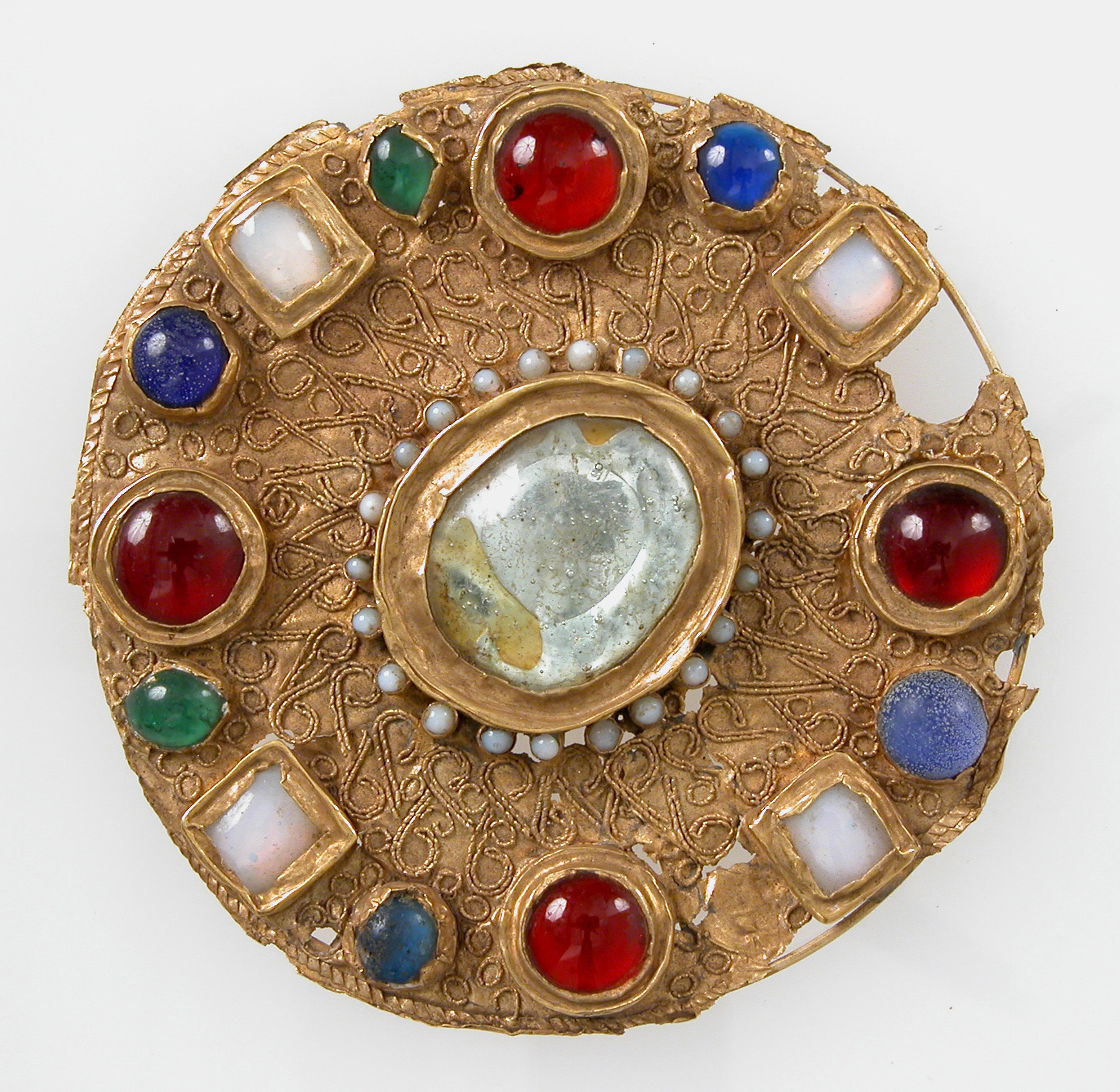 Frankish; Brooch; Metalwork-Gold